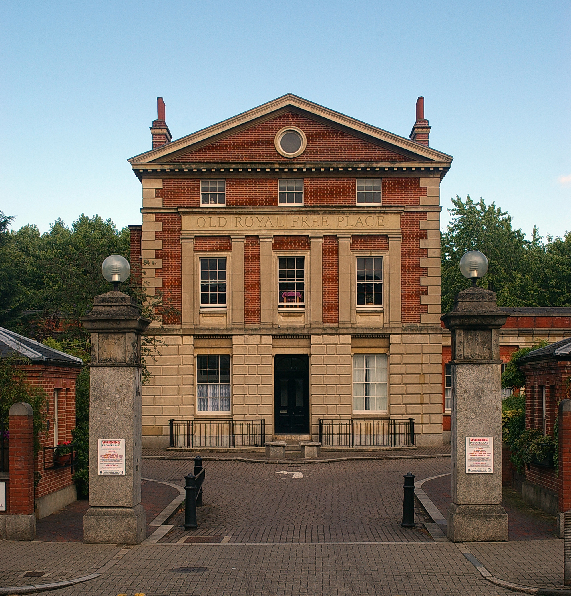 Former London Fever Hospital, Islington